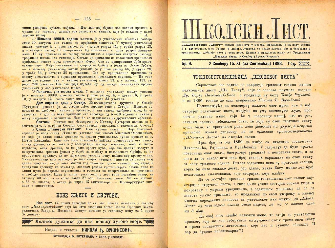 Page of journal